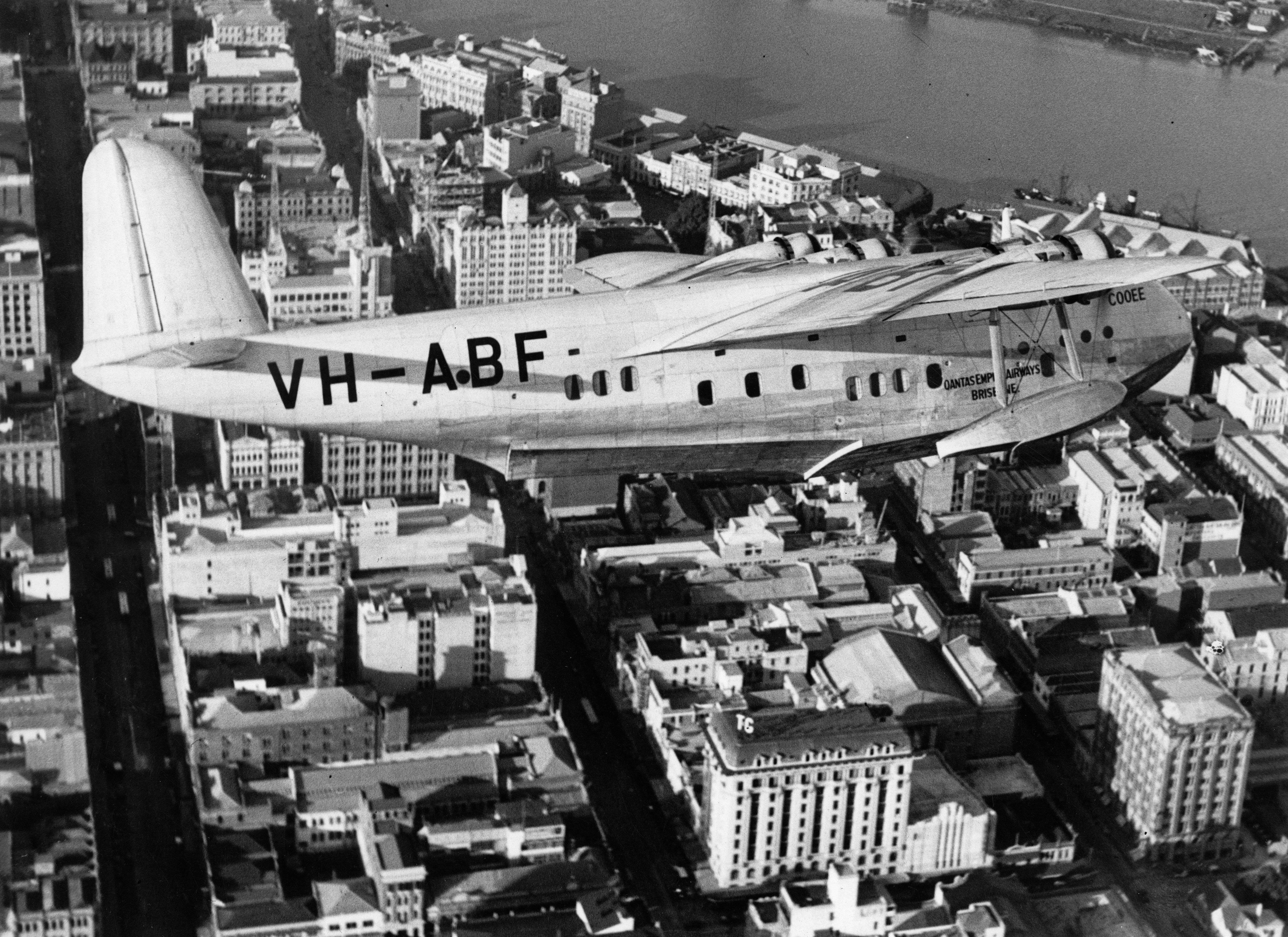 Empire flying boat 'Cooee', operated by QANTAS, circling over Brisbane, 1938 Sort S23 Empire Flying Boat VH-ABF. Registered 20 May 1938, deregistered 11 August 1942. 'Cooee' first landed in Brisbane on 5 July 1938 on its inaugural flying boat service to Singapore. The service was operated by QANTAS. (Description supplied with photograph).